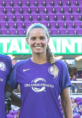 Dani Weatherholt playing for the Orlando Pride in 2017